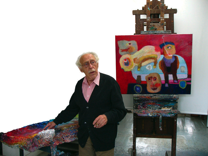 Dutch painter Leo Schatz at work in his atelier in Amsterdam, The Netherlands.